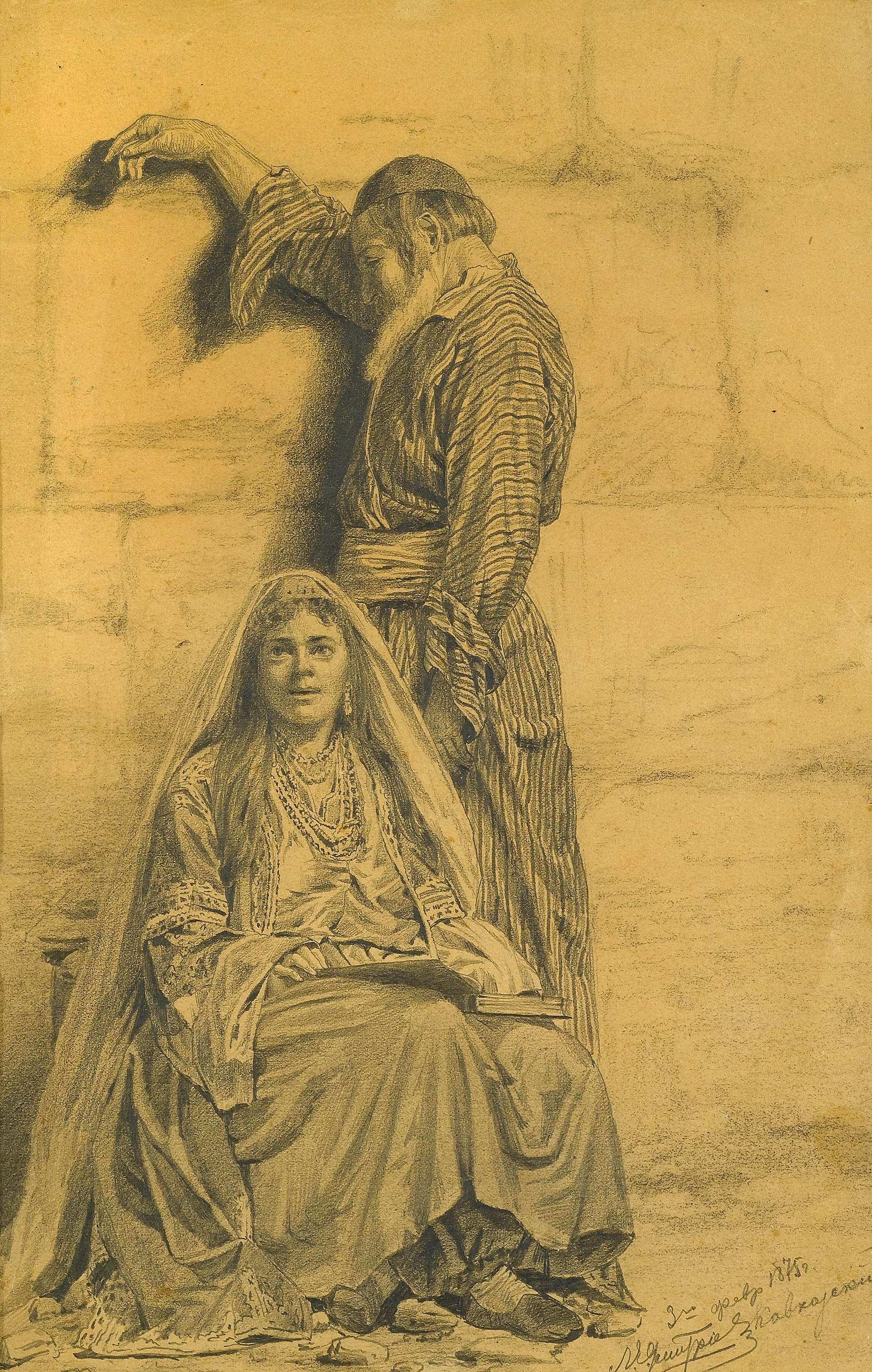 Bukharan Jews, pencil drawing of Bukharan Jewish couple in traditional clothing.